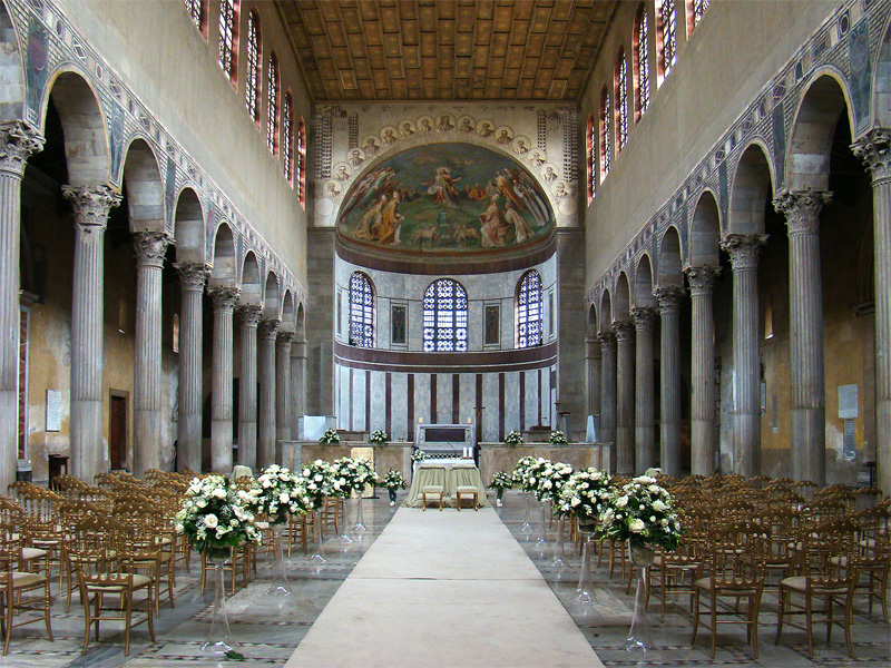 Basilica of Saint Sabina, Rome, Lazio, Italy.